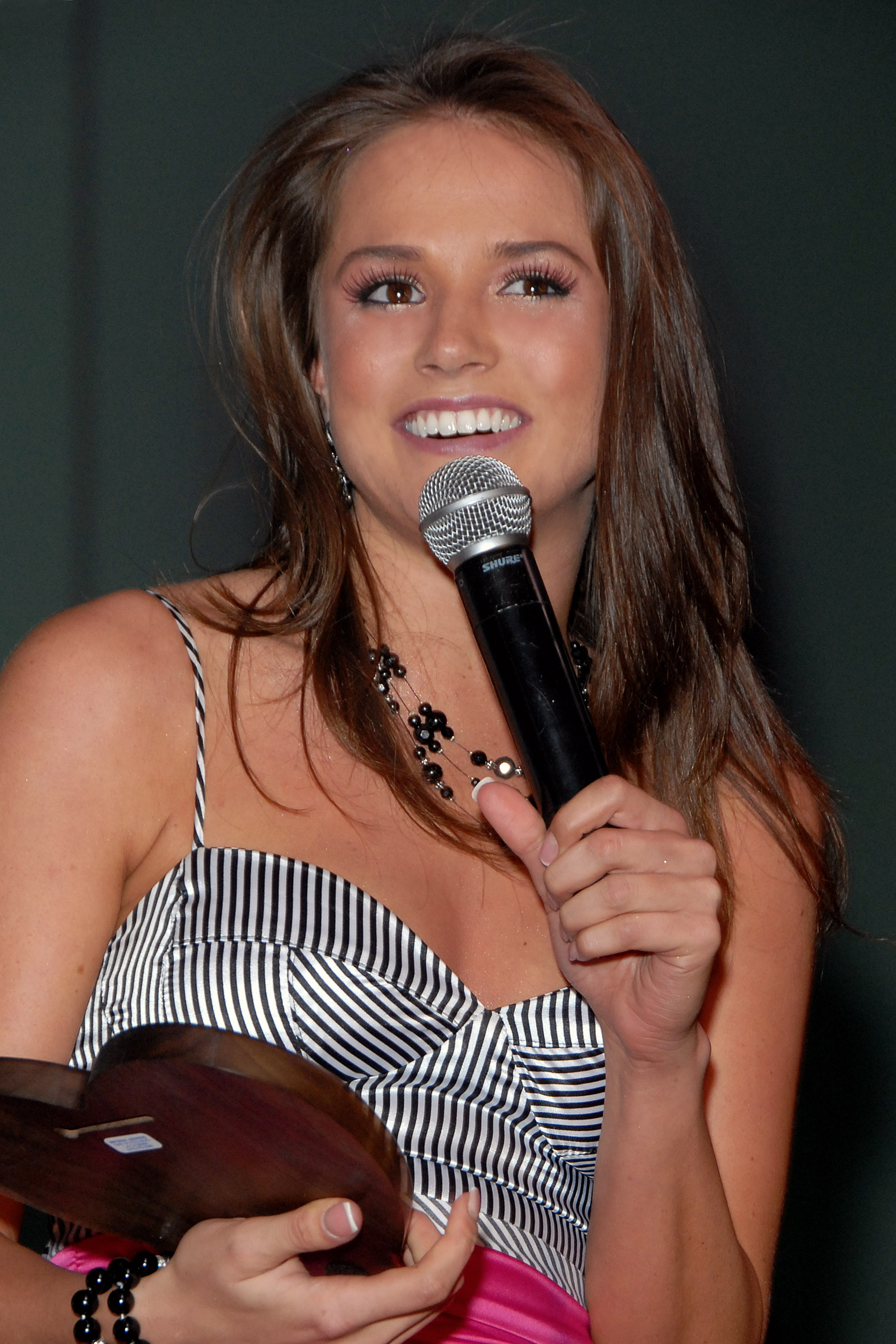 Tori Black presenting at the XRCO Awards, Hollywood, CA on April 16, 2009 - Photo by Glenn Francis of